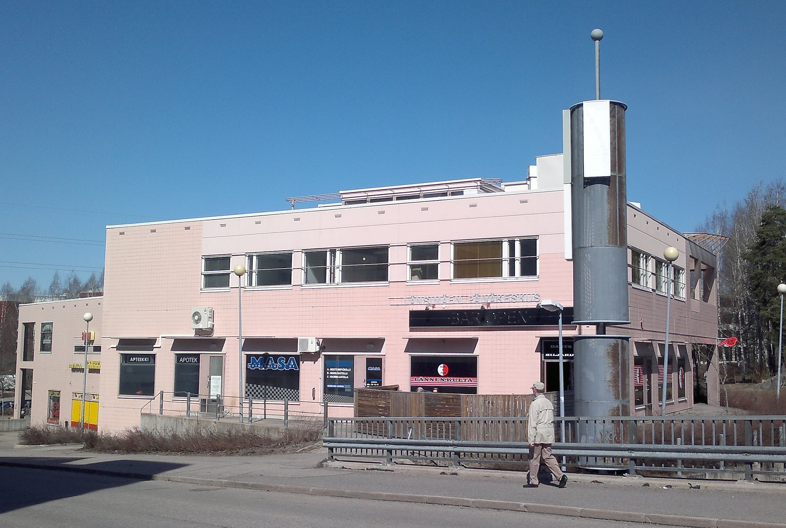 Small shopping mall of Länsimäki district in Vantaa, Finland